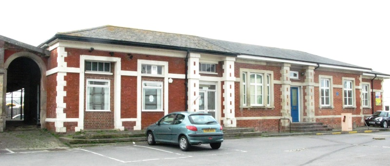 The former Great Western Railway station at Salisbury, Wiltshire, England.